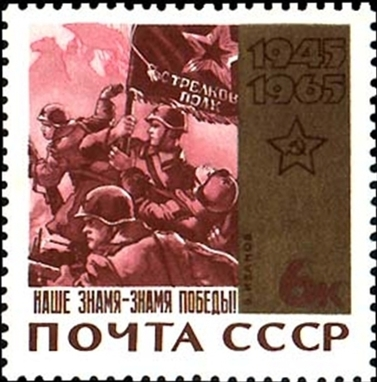 USSR stamp from 1965 illustrating a Soviet poster by Victor Ivanov